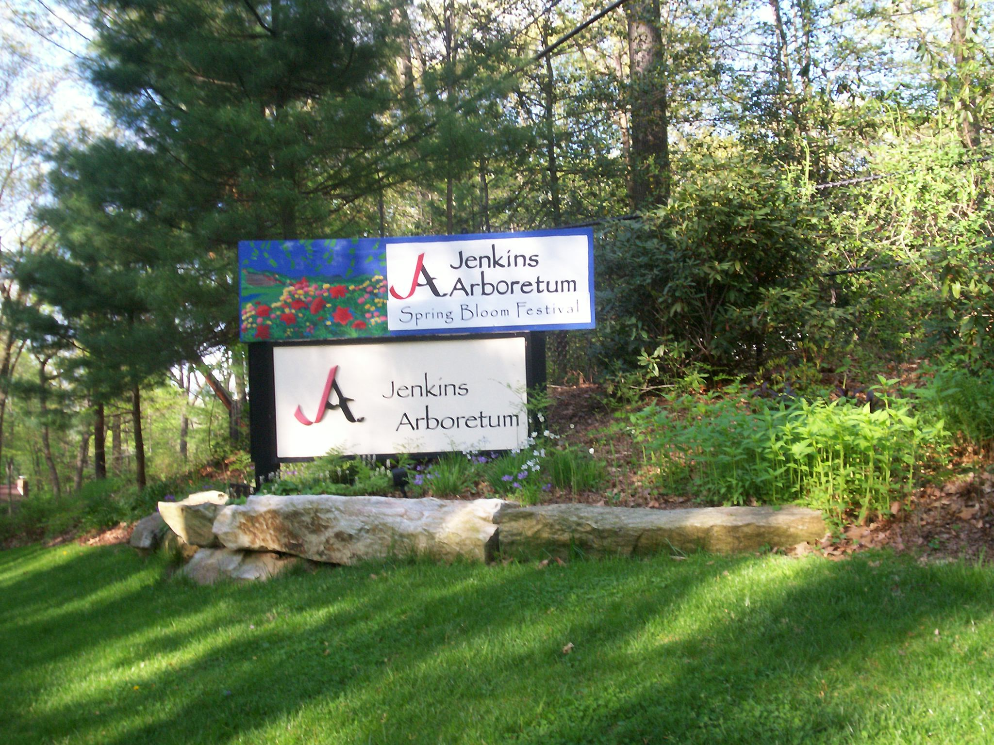 Sign for the Jenkins Arboretum in Devon, Pennsylvania.